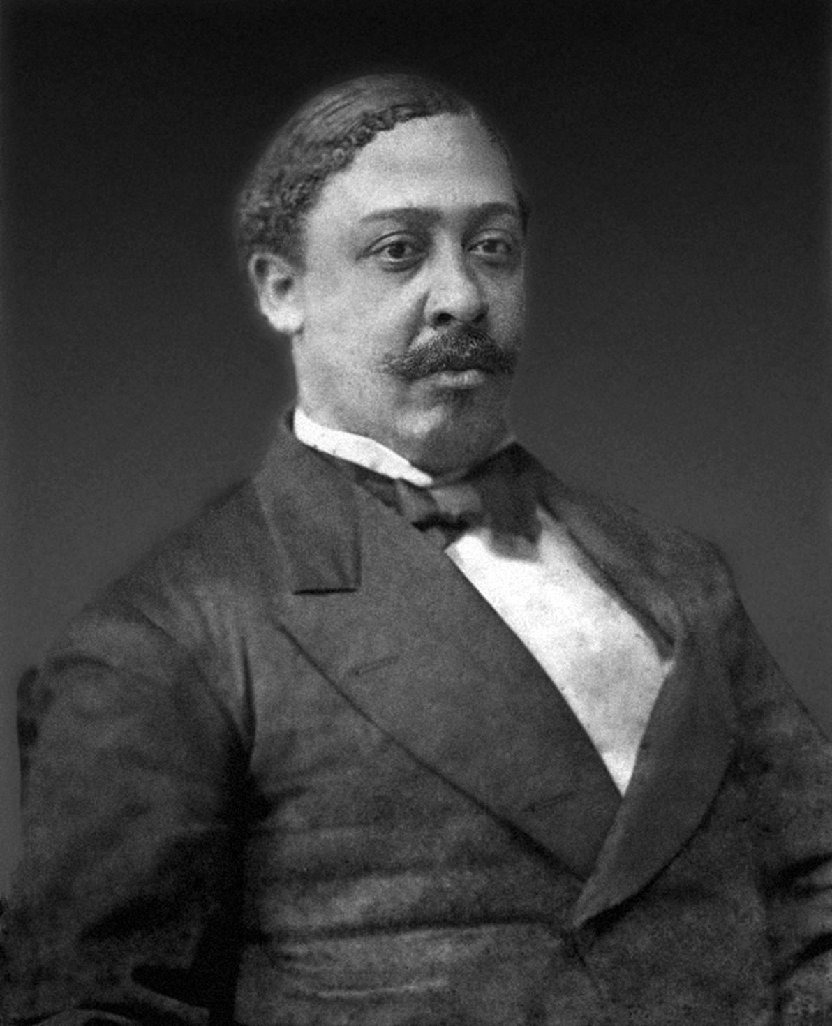 Charles E. Nash, MC. Library of Congress description: "Hon. Charles Edmund Nash of LA. Private in 82nd Reg't U.S. Vol. U.S.A. - lost leg at Fort Blakely" (Digitally restored image) NOTE: This image is a WP digital restoration of the original at the Library of Congress. Charles Edmund Nash (1844 - 1913), a Representative from Louisiana; born in Opelousas, St. Landry Parish, Louisiana, May 23, 1844; attended the common schools; was a bricklayer by trade; during the Civil War enlisted in 1863 as a private in the Eighty-second Regiment, United States Volunteers, and was promoted to the rank of sergeant major; appointed night inspector of customs in 1865; elected as a Republican to the Forty-fourth Congress (March 4, 1875-March 3, 1877); unsuccessful candidate for reelection in 1876 to the Forty-fifth Congress; postmaster at Washington, St. Landry Parish, Louisiana, from February 15, 1882, until May 1, 1882; died in New Orleans, Louisiana, June 21, 1913; interment in St. Louis Cemetery No. 3.